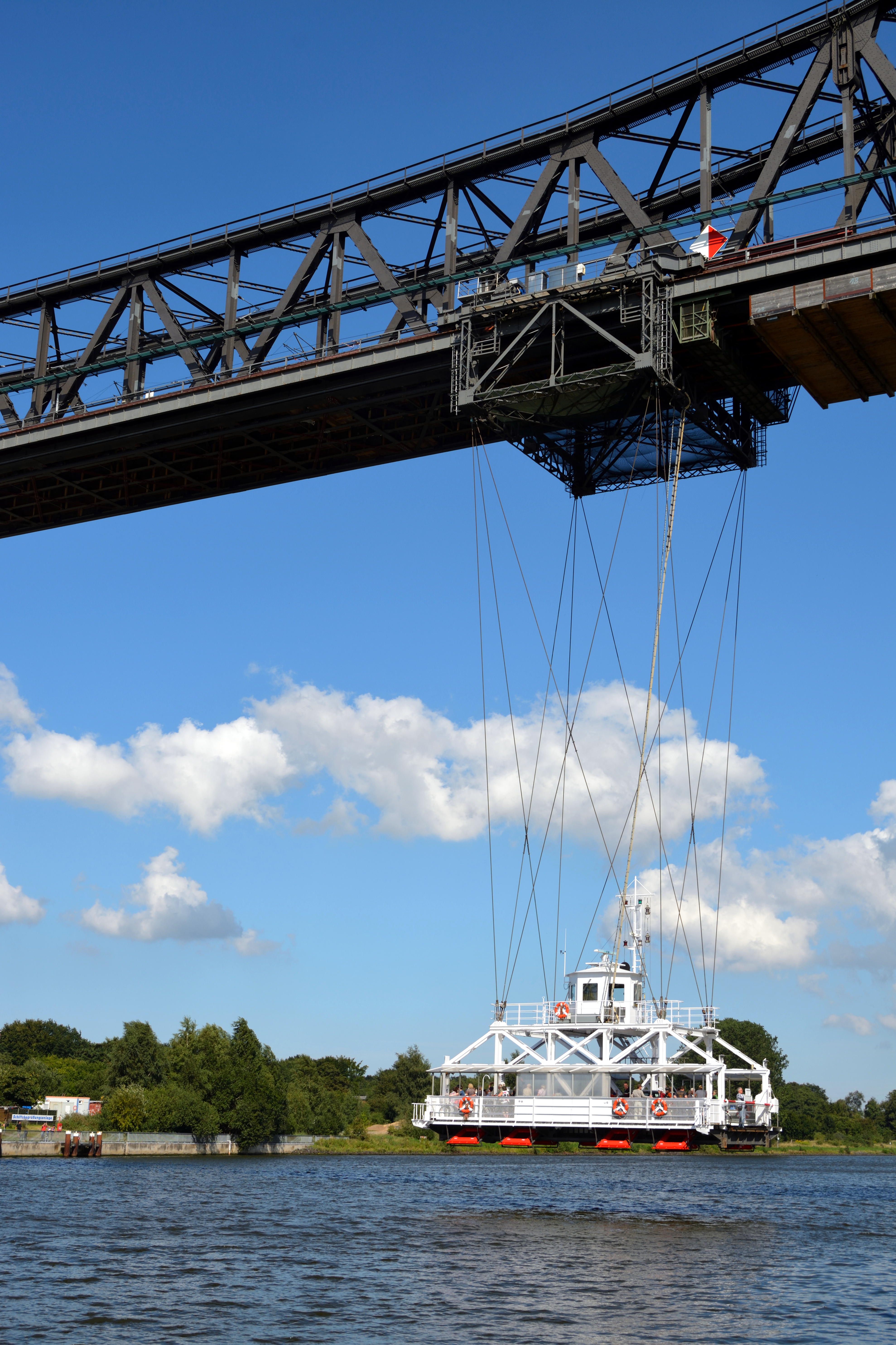 The ferry was destroyed in an accident. There will be a new building .